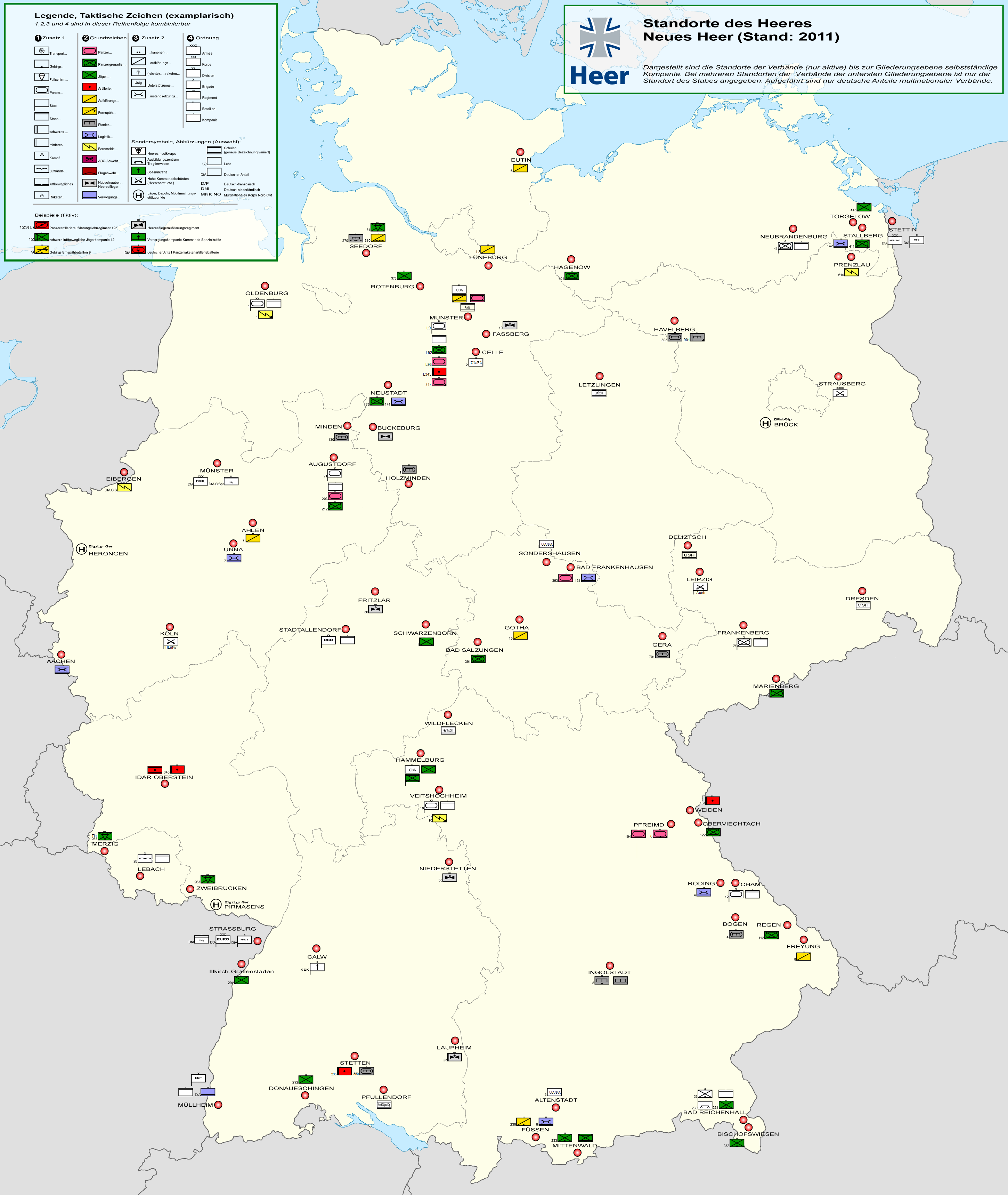 Map of Army Units Bundeswehr